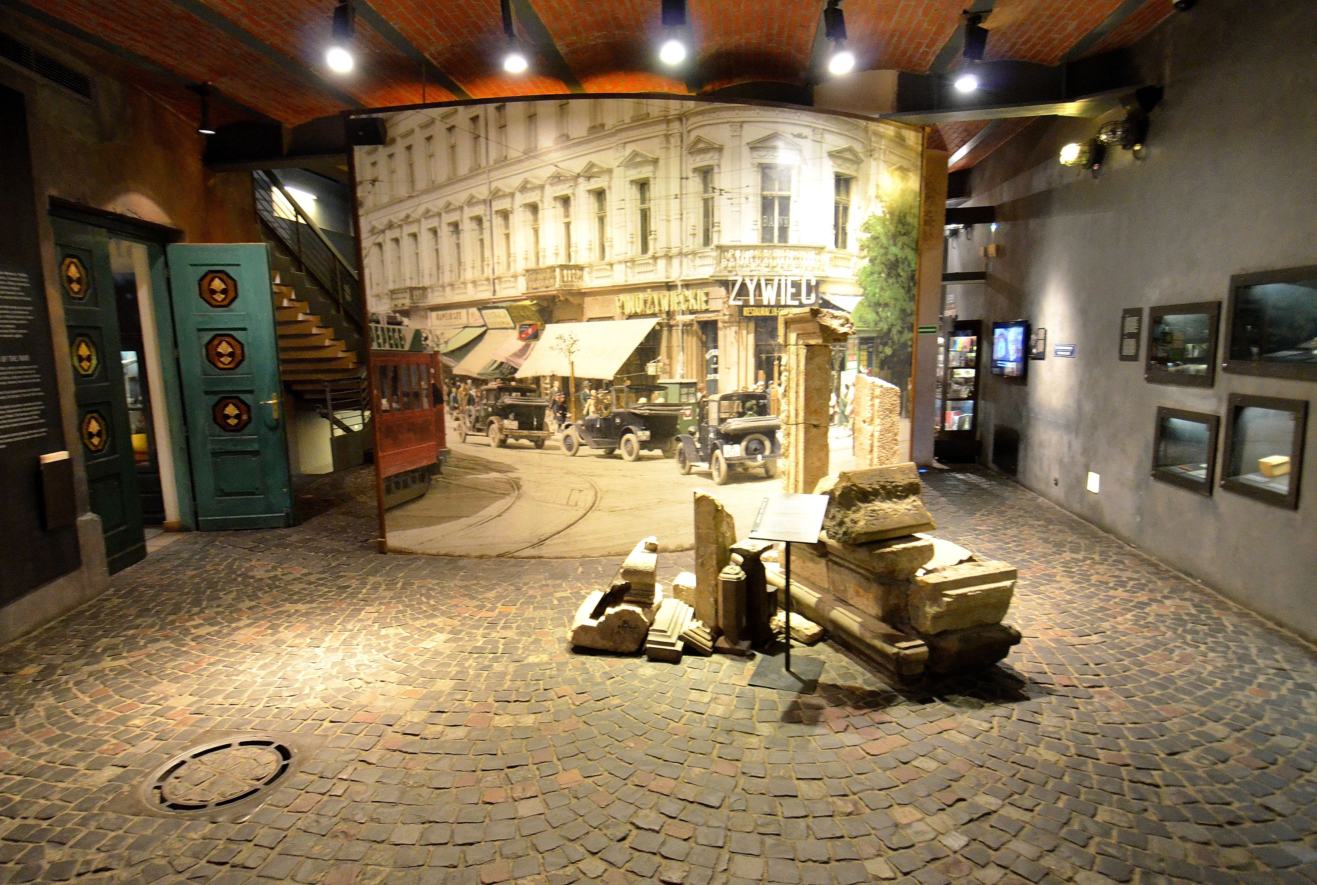 Warsaw Uprising Museum